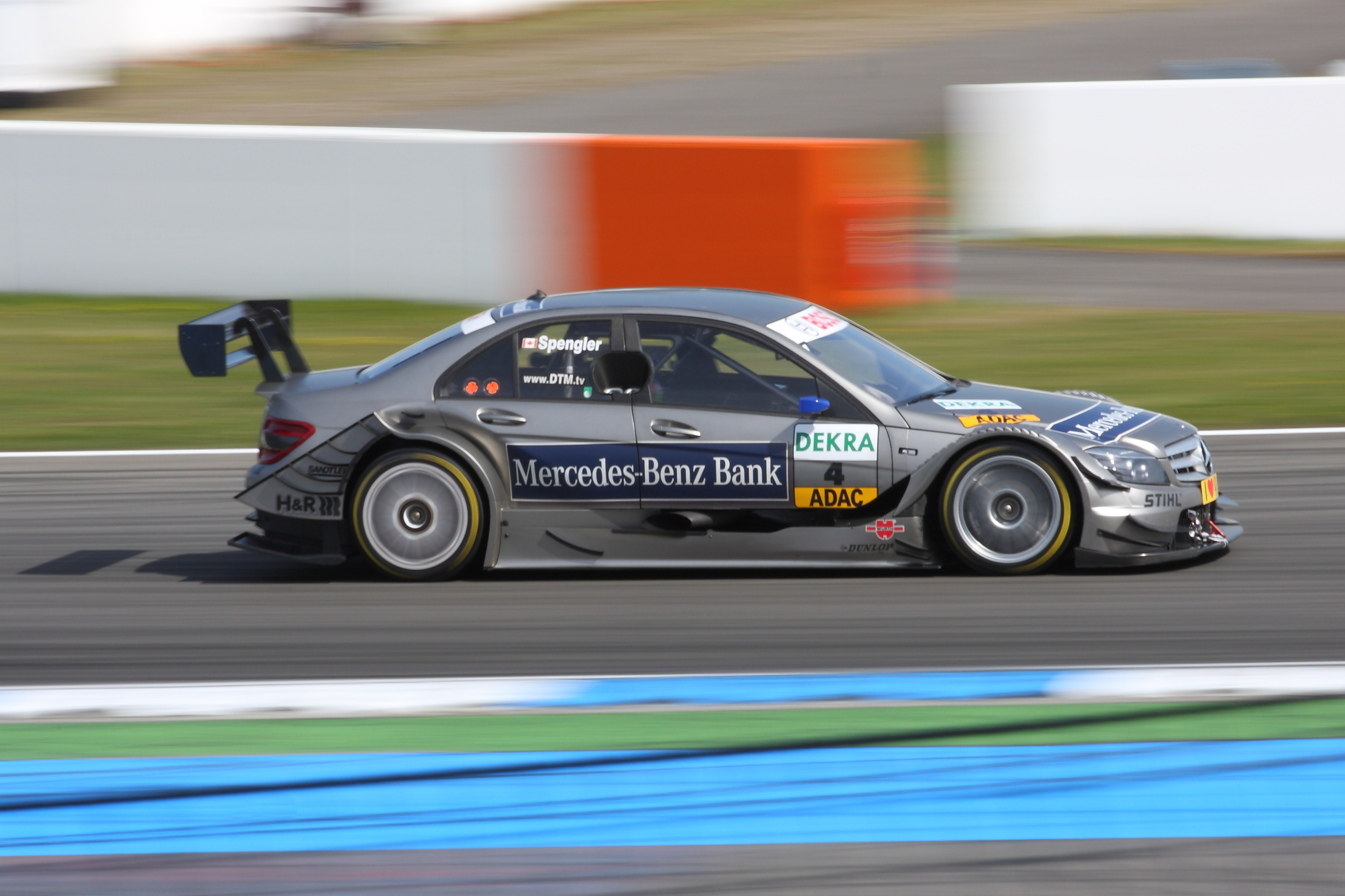 DTM car Mercedes-Benz Season 2010 (C-Class, W204), Bruno Spengler (driver)